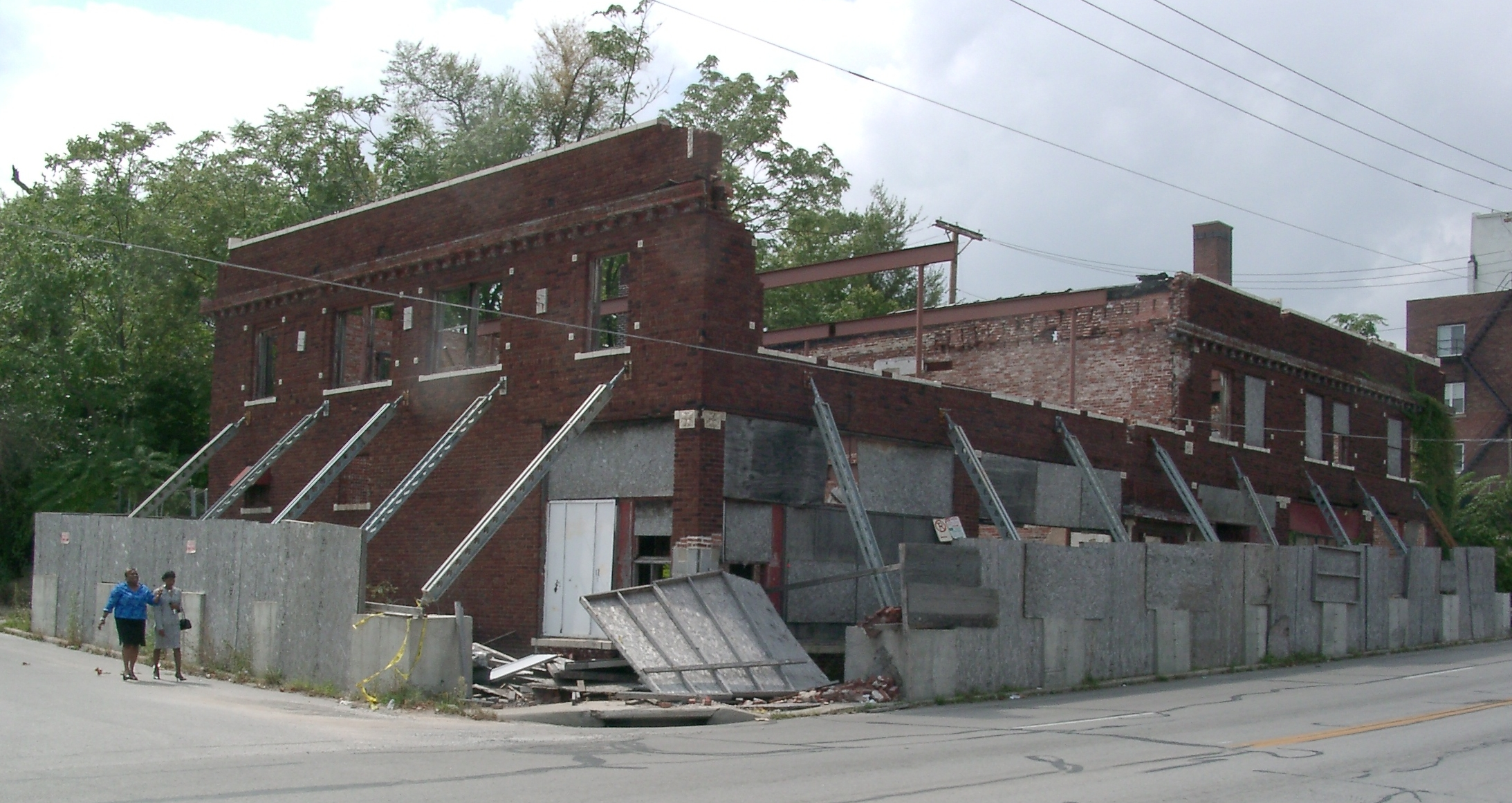 Laugh-O-Gram Studio 41st and Forest I took this picture Sept. 5 2004. There is a smudge on the lens but I like the women walking by. I think they were headed to the church across the street. My batteries went dead right after this picture. When they are charged up I will try to get some more shots. The building is on the southwest corner of 31st and Forest in Kansas City, Missouri.